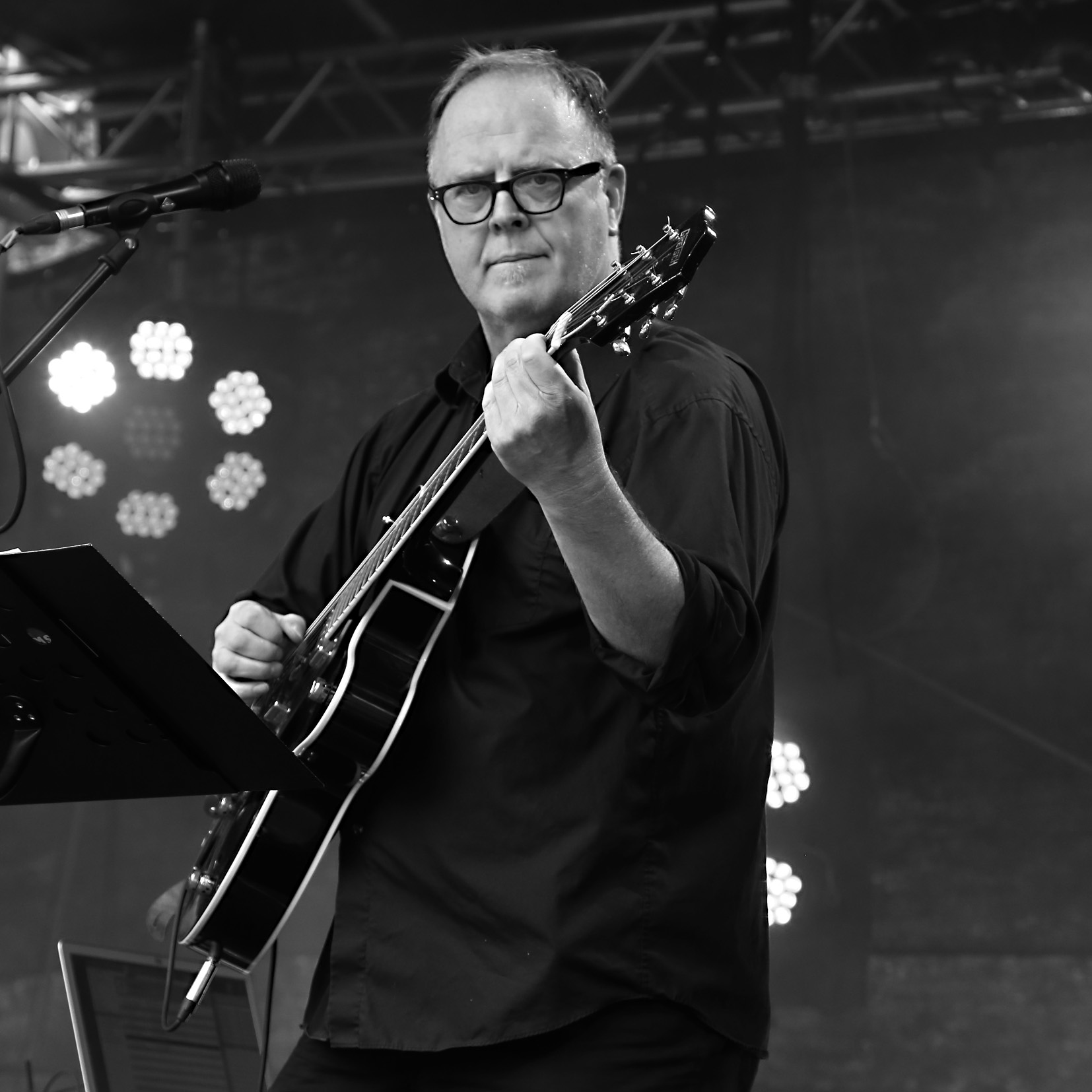 Albrecht Koch beim Ruhrflairfestival 2016